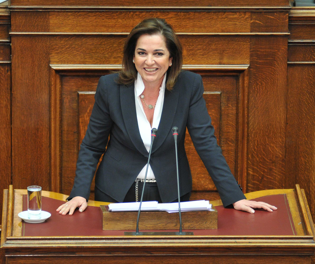 Dora Bakoyannis in the Greek Parliament in her role as Minister of Foreign Affairs